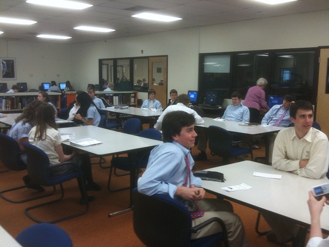 Students at Benet Academy at Law Club meeting on April 22, 2010.